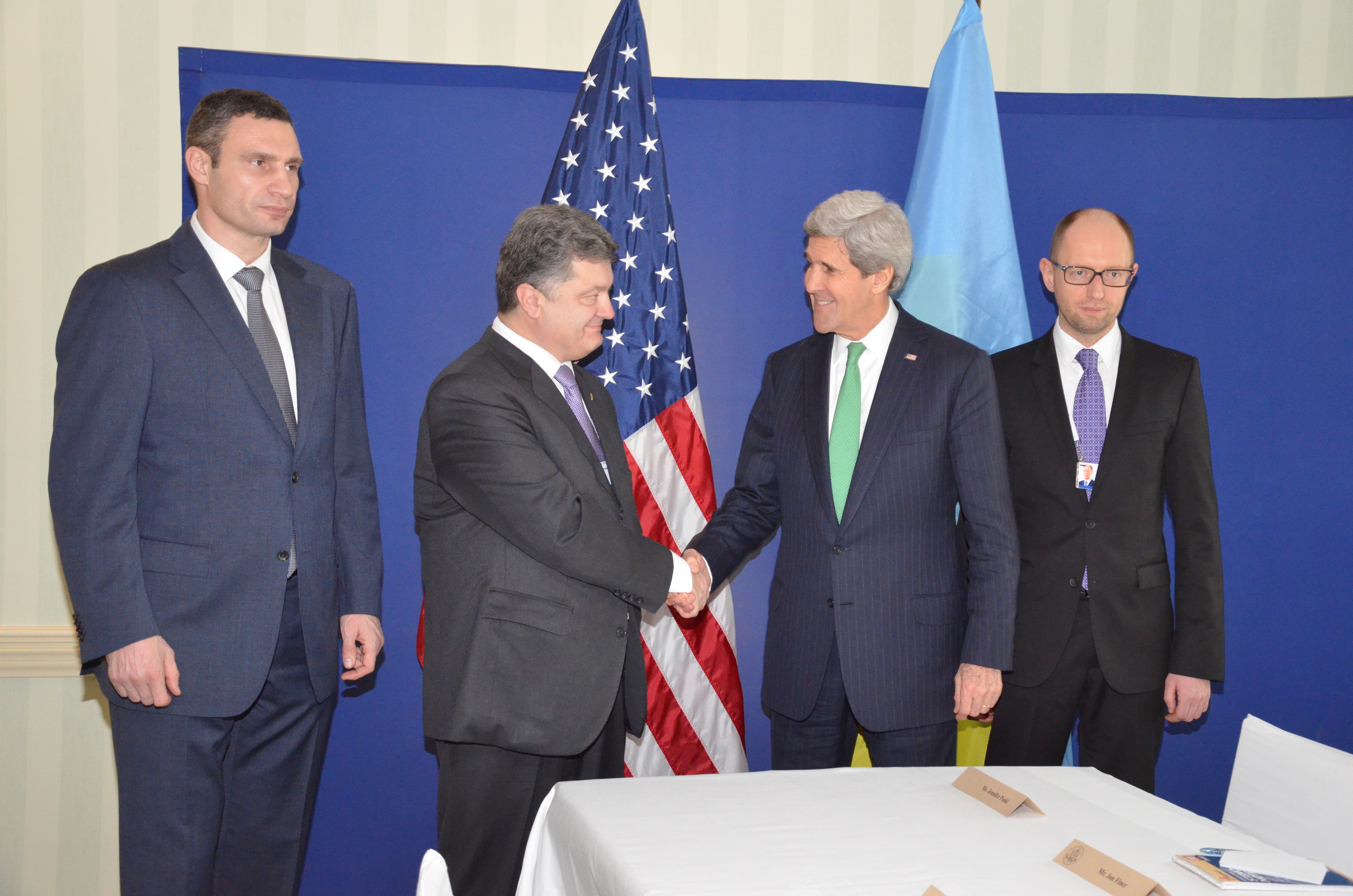 U.S. Secretary of State meets with Ukrainian opposition leaders.